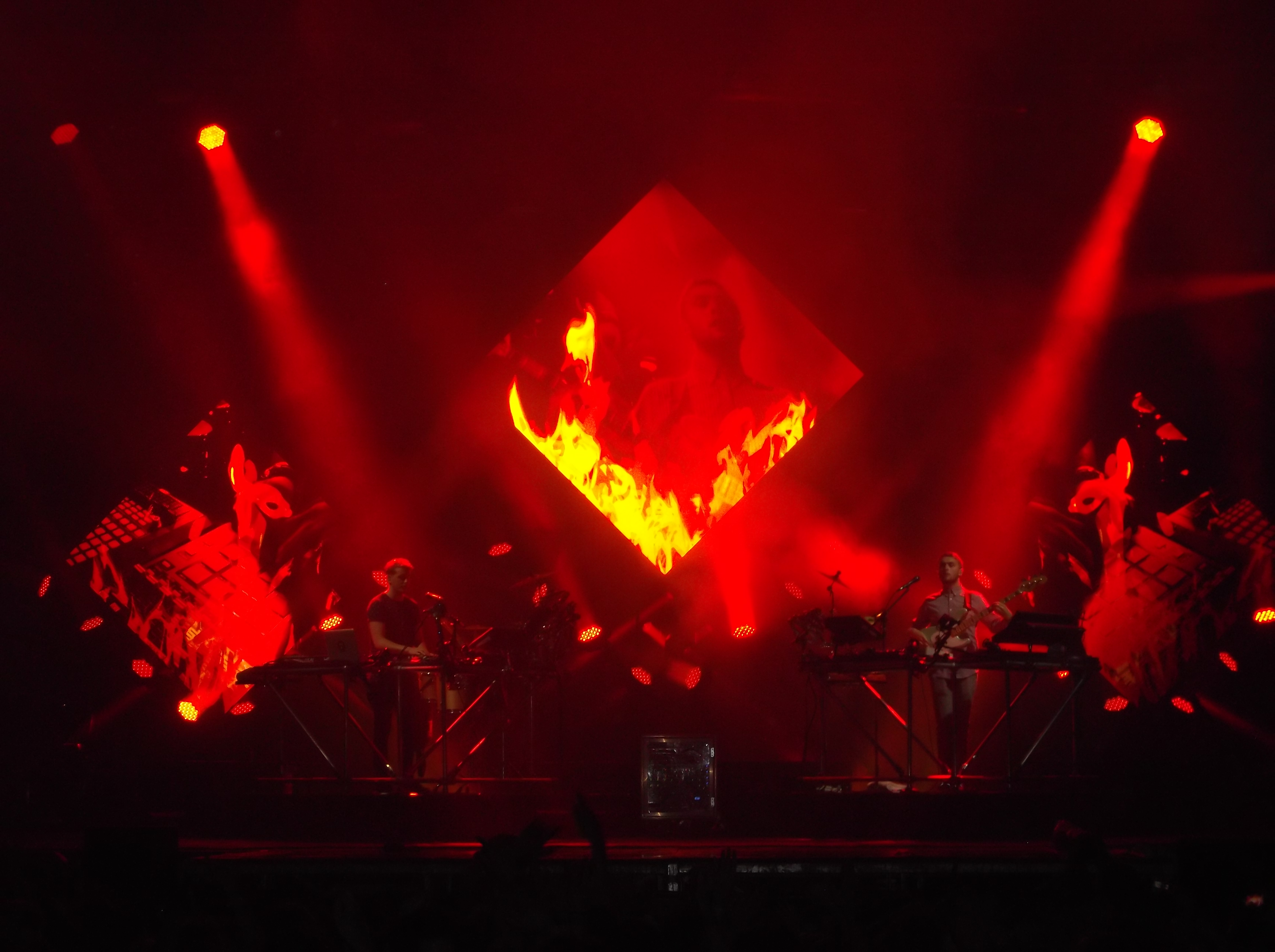 Disclosure performing at Festival Beauregard (France) 2014